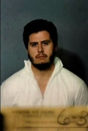 Larry Eugene Phillips, Jr. in 1993 after being arrested in Glendale, California.